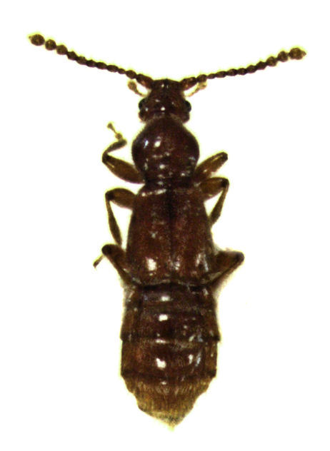 adult male Exeirarthra enigma, length about 2 mm